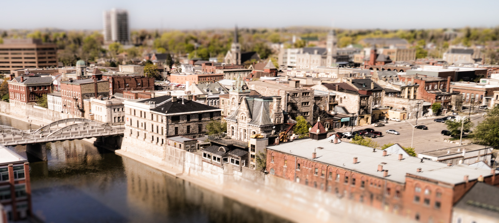 Experimenting with my RC helicopter and post Tilt Shift Effect